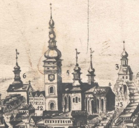 Church of St. Peter and Paul in Česká Lípa (abandoned 1820)